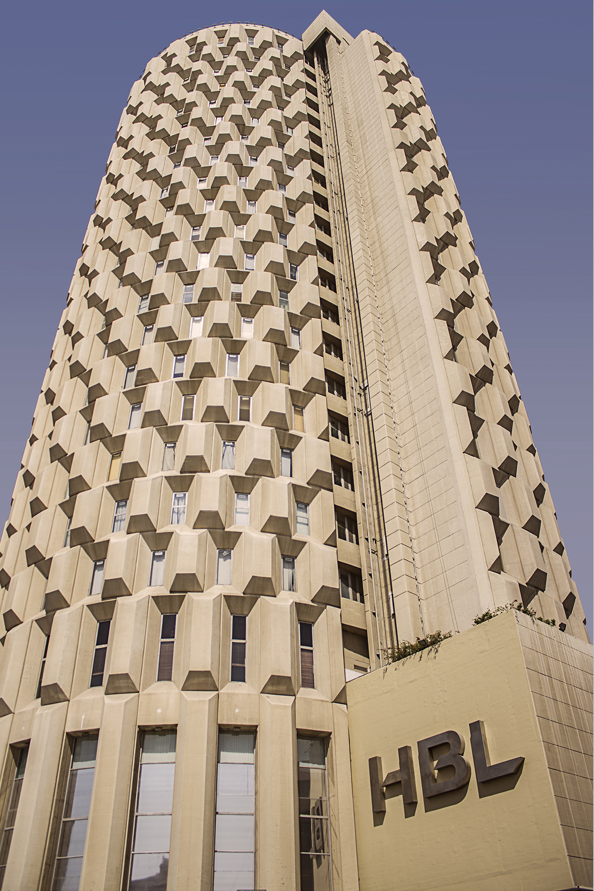 Habib Bank Plaza This is a photo of a monument in Pakistan identified as the SD-P-144